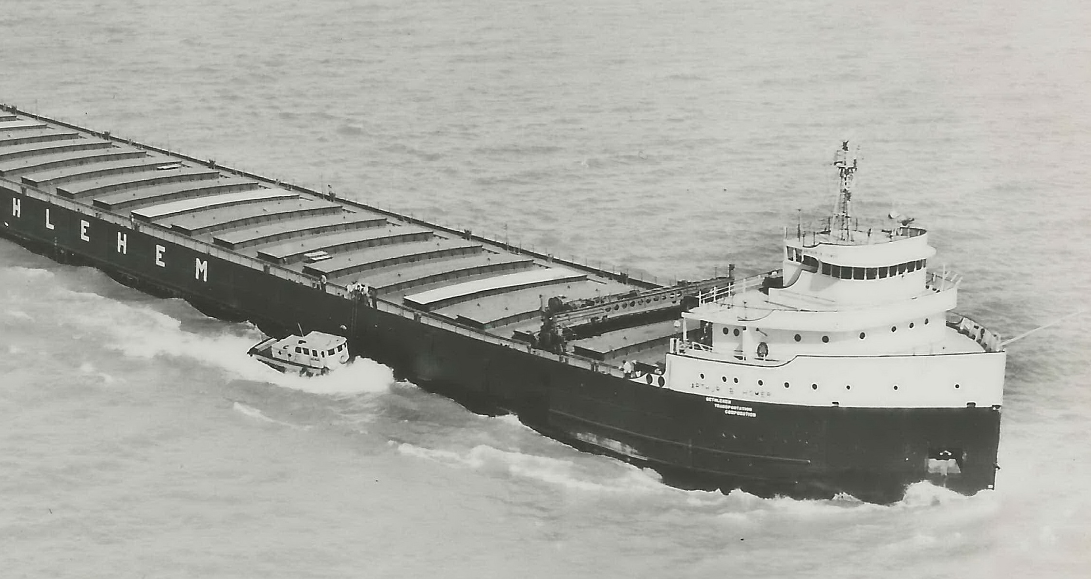 SS Arthur B Homer - The J.W. Westcott mailboat tending to the the Edmund Fitzgerald sister ship.